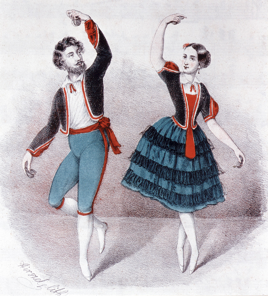 Aleksander Tarnowski and Konstancja Turczynowicz in Cachucha from the ballet "The Countess and the Peasant" by Roman Turczynowicz after "Le Diable á quatre" by Joseph Mazilier, 1847